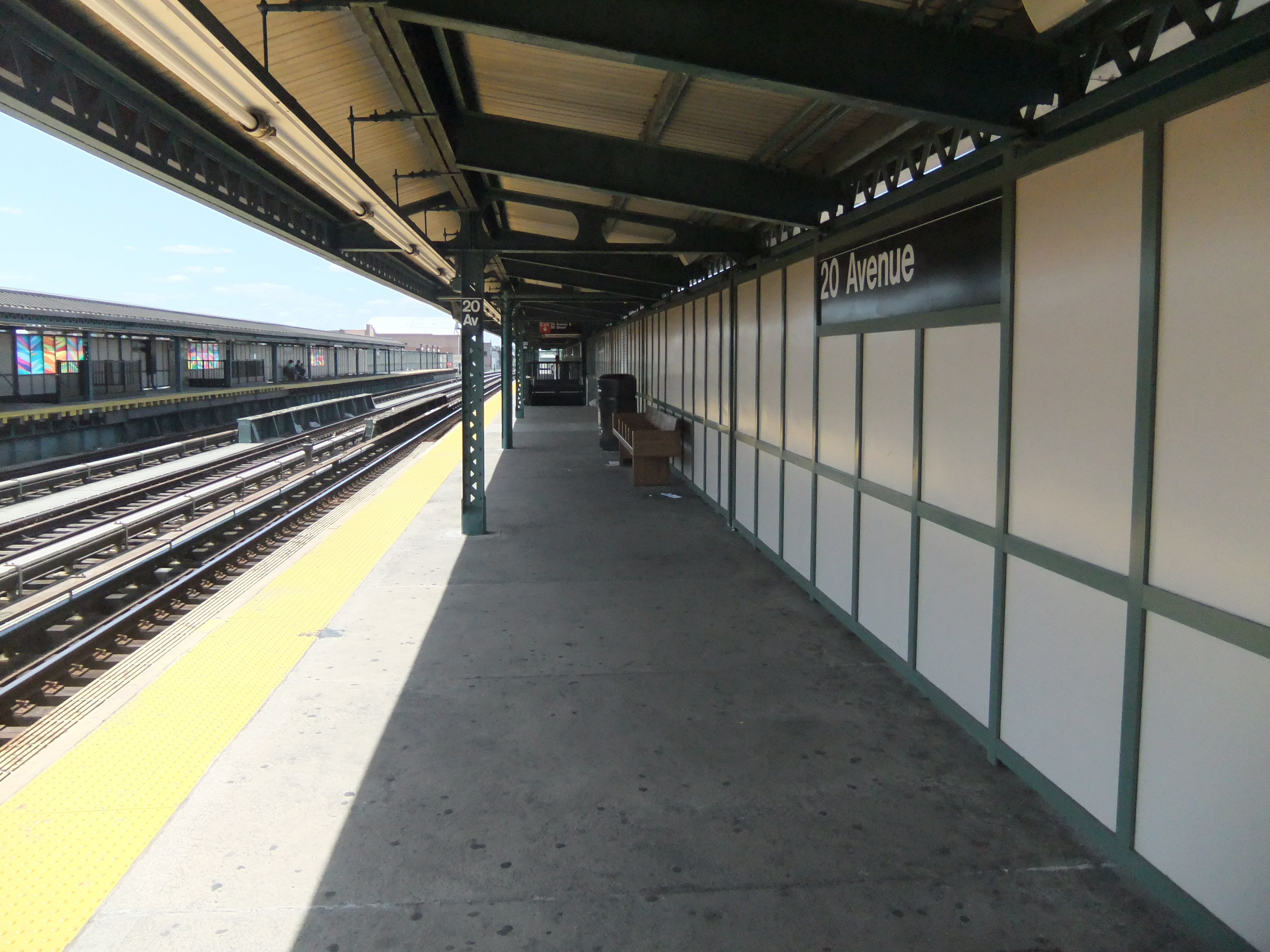 Manhattan bound platform at 20th Avenue (West End)